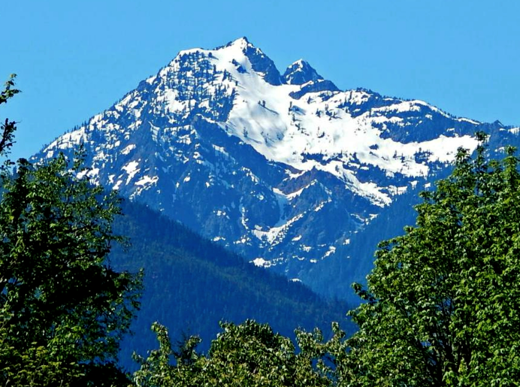 Jumbo Mountain seen from Highway 530 north of Darrington, WA.